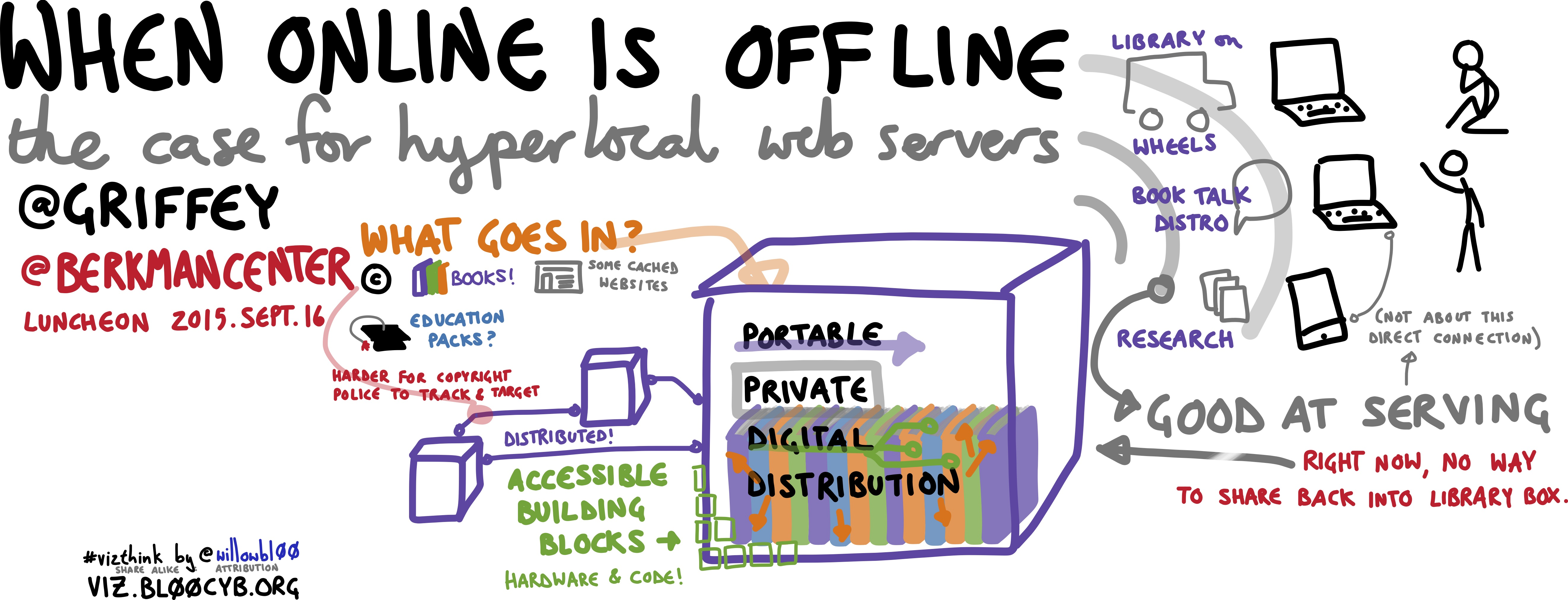 Griffey speaking about Library Box, a fork of Pirate Box, at Berkman Center for Internet and Society luncheon